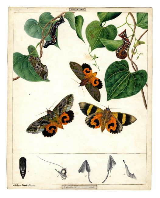 Fruit-piercing Moth, (Eudocima fullonia (Clerck)=Eudocima phalonia), Noctuidae, Lepidoptera